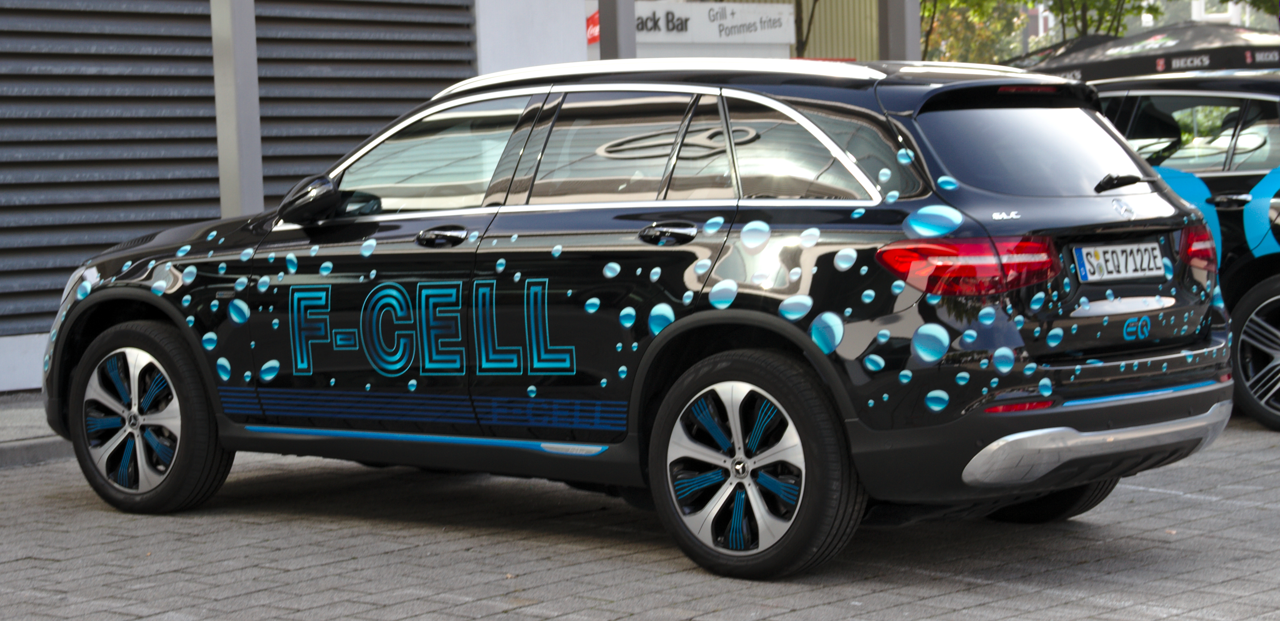 Mercedes-Benz_GLC_F-Cell at IAA 2019